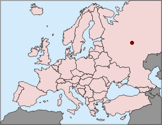 location of Nizhny Novgorod in Europe